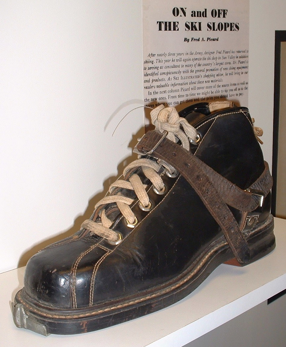 Ski boot circa 1940s manufactured by G.H. Bass Company of Wilton, Maine. On exhibit in Ski Museum of Maine.